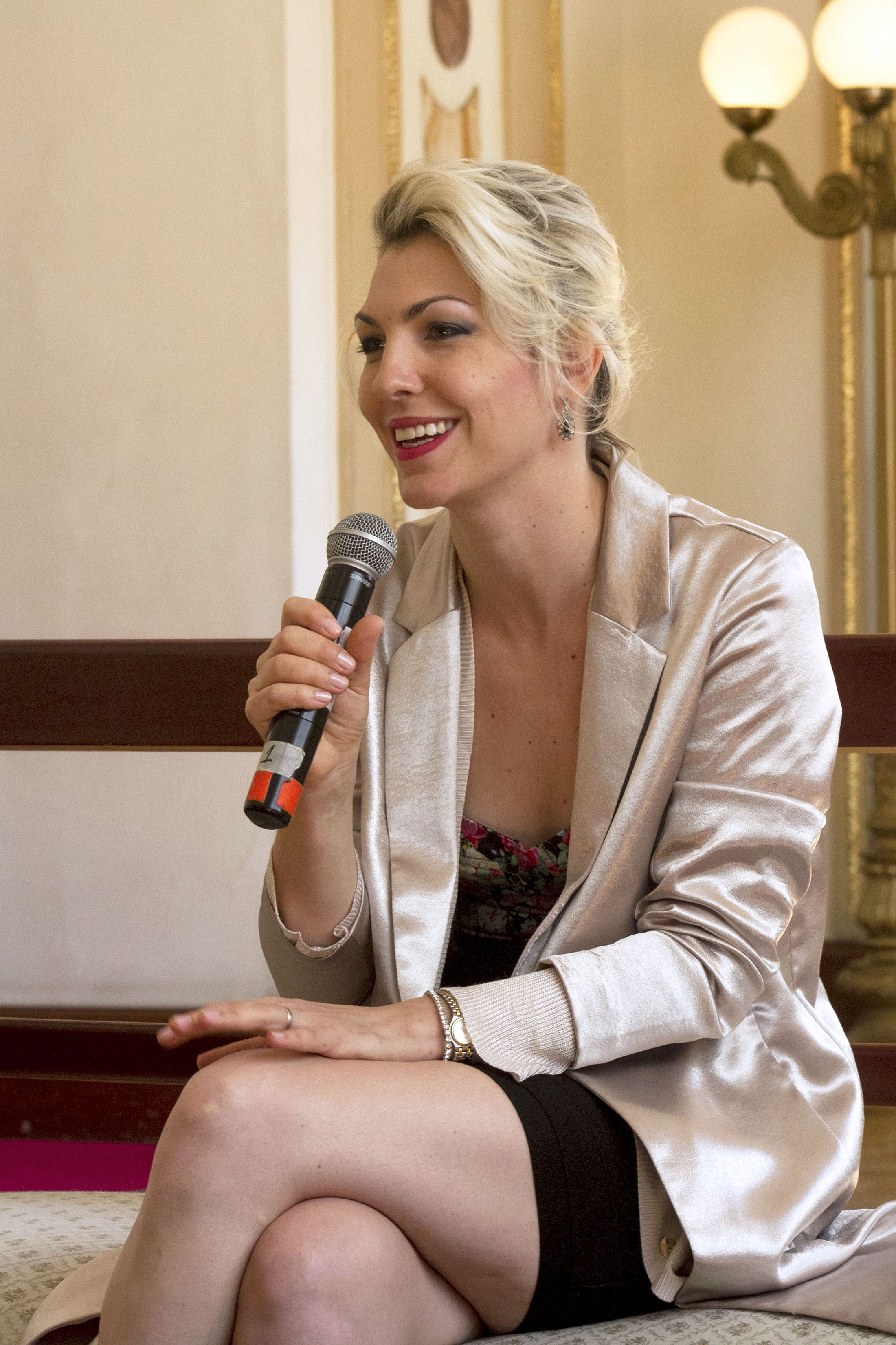 Argentine jazz singer Karen Souza during the press conference in Mexico on November 7, 2016.